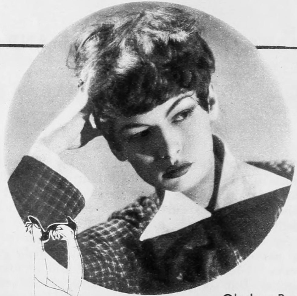 Portrait of fashion designer and cartoonist Gladys Parker